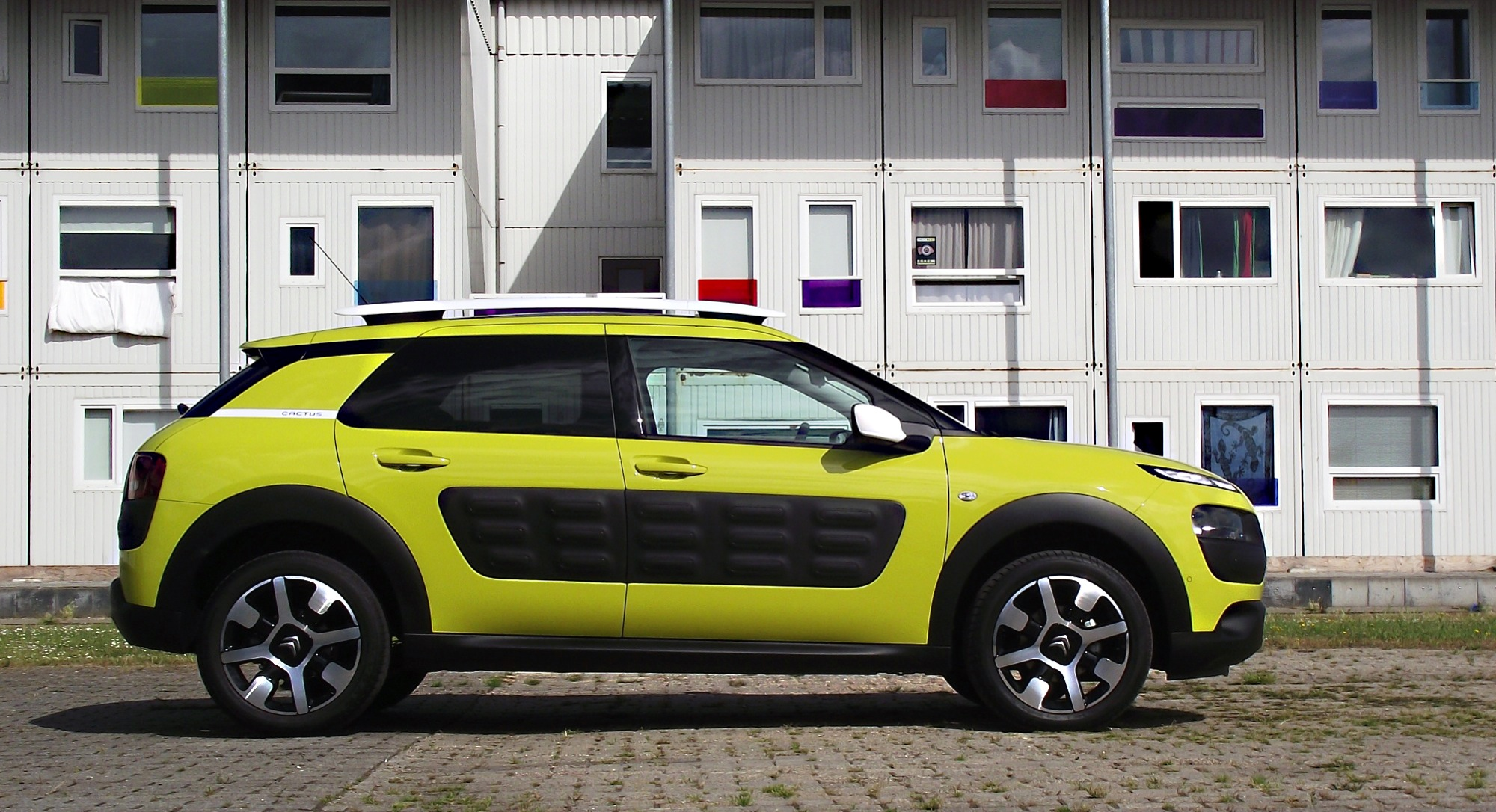 2014 Citroën C4 Cactus Feel Edition PureTech e-THP 110 Hello Yellow Side View